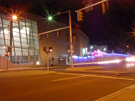 Photo of the Group Health Exhibit Hall in Spokane, Washington. Author, JDubman